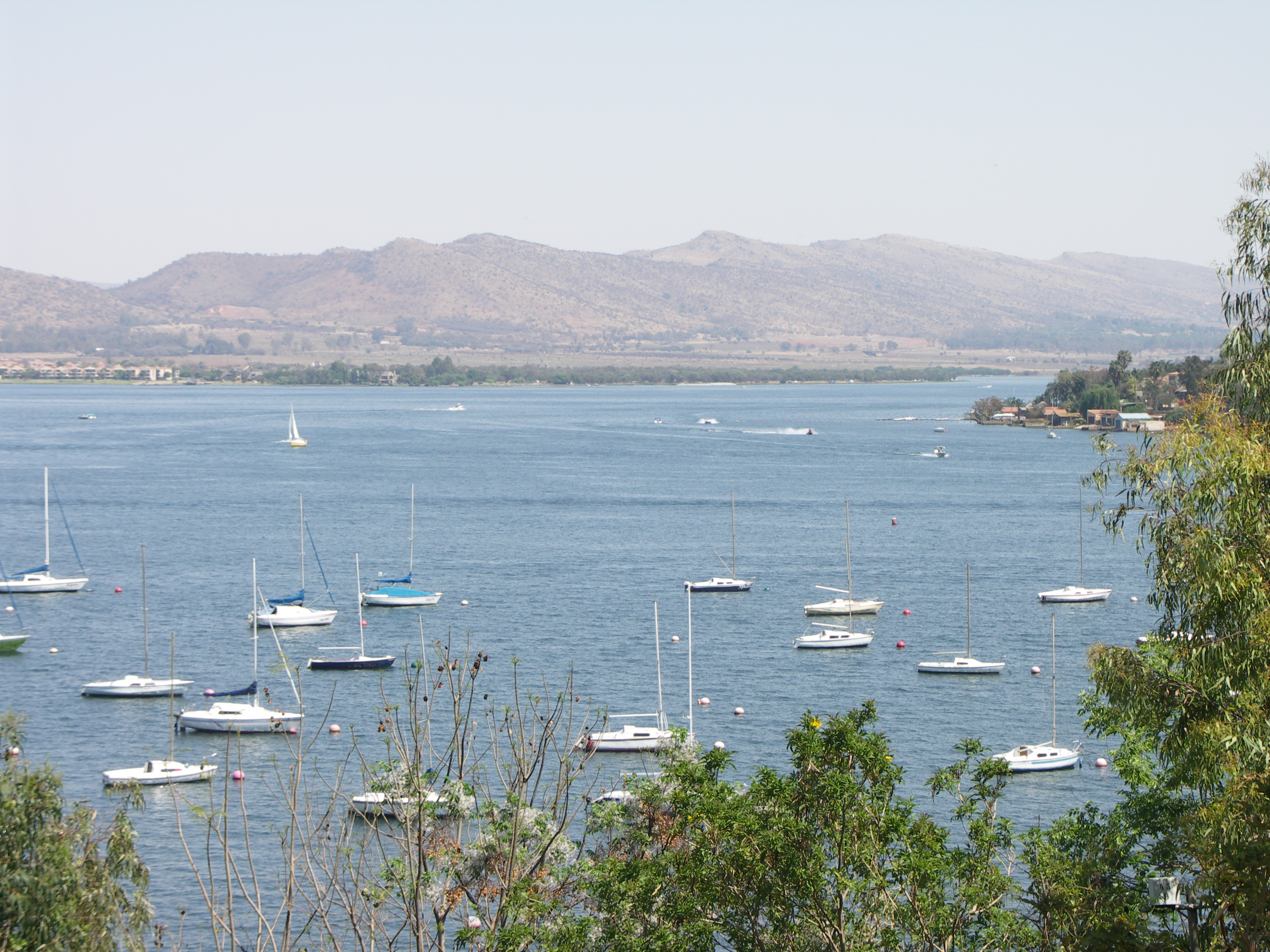 Sailing and boating on Hertebeespoort dam